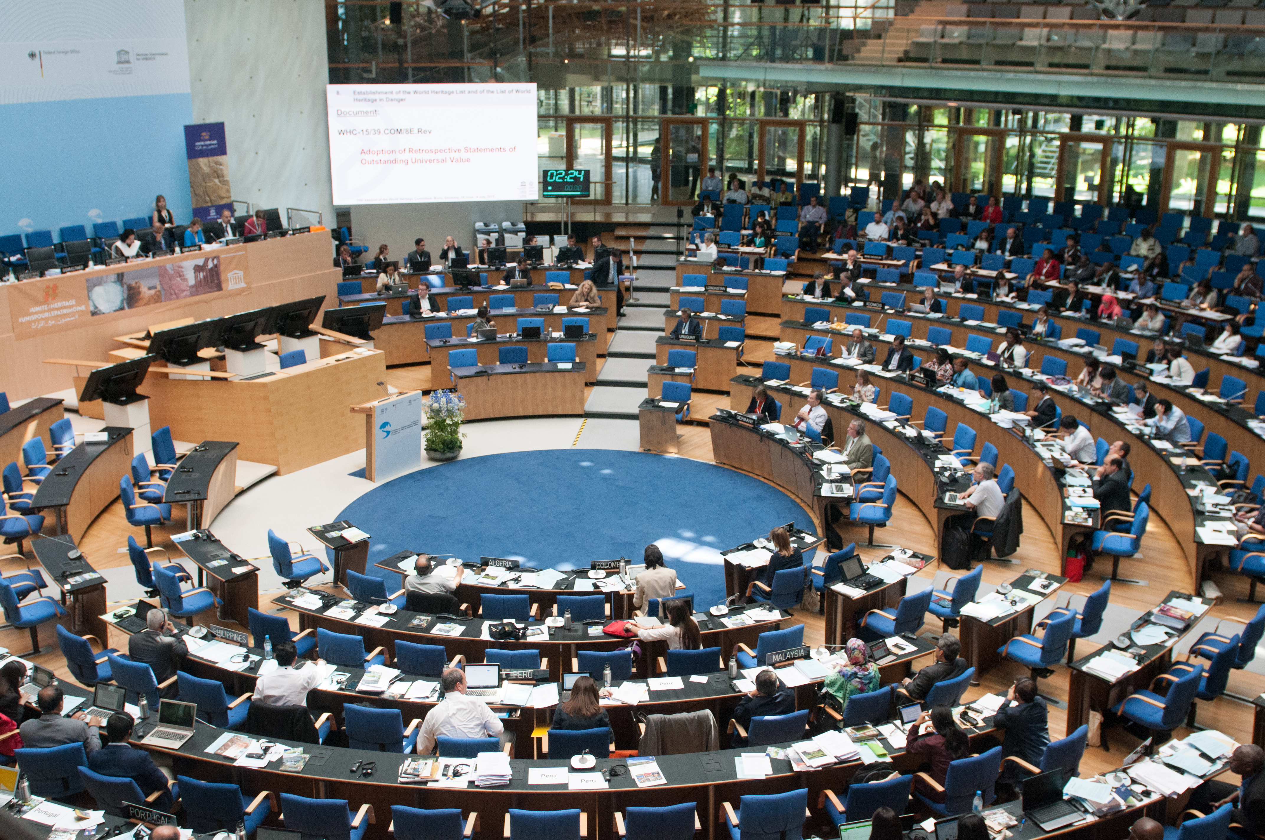 39th Session of World Heritage Committee 2015 in Bonn 39th World Heritage Committee 2015 in Bonn, Germany